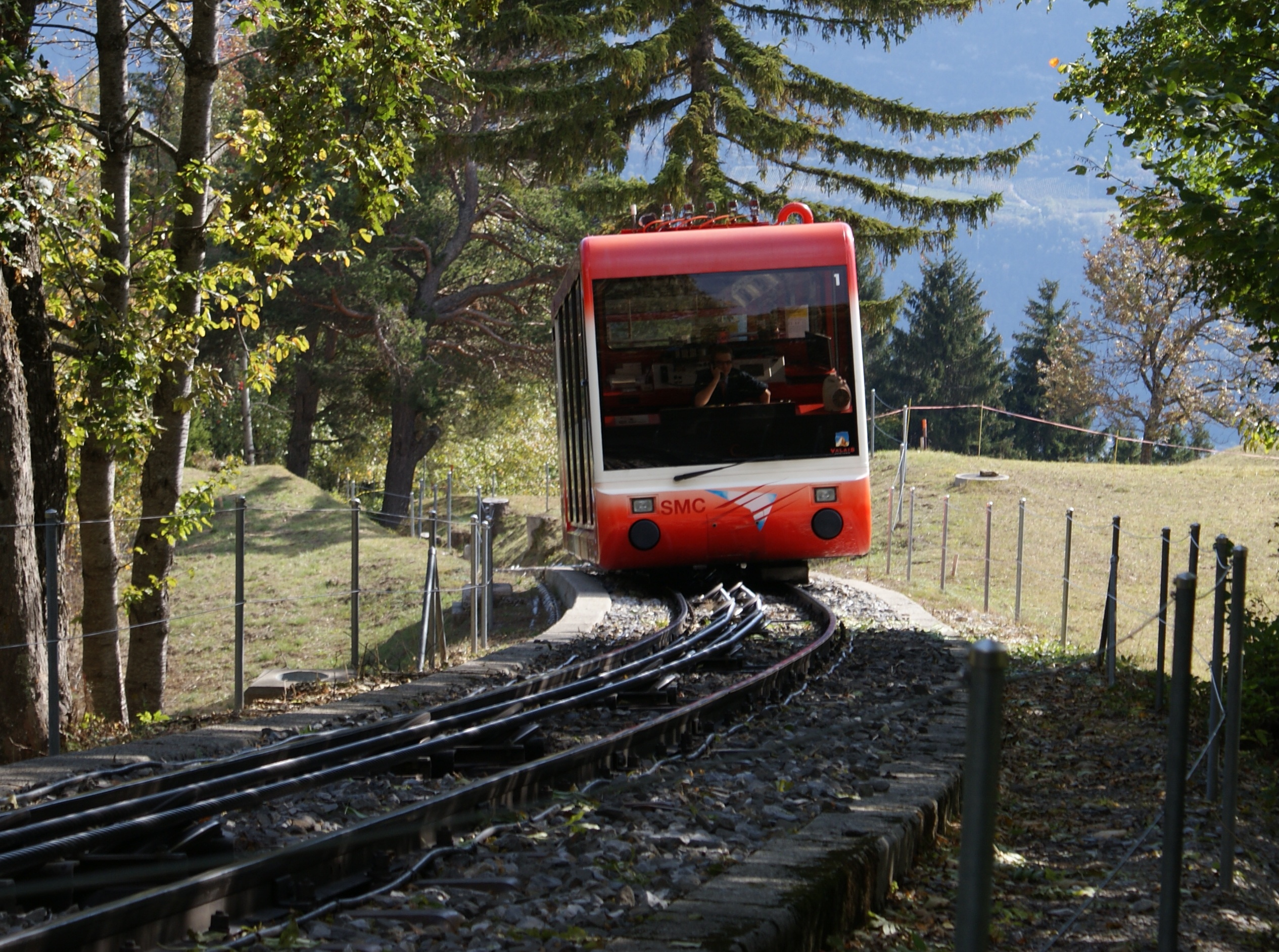 Cropped version of File:Funicular SMC car.jpg